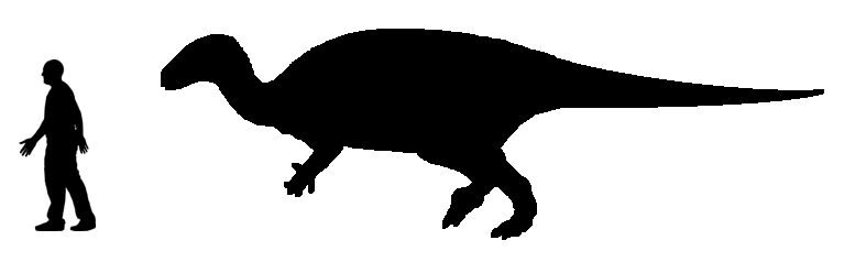 Size comparison between the basal hadrosauriform ornithopod Jinzhousaurus (7 m long) and the human Andrew A. Farke (1.8 m tall).